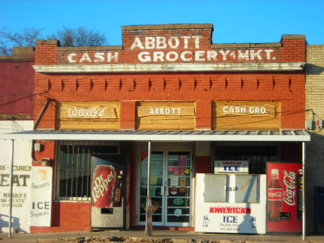 The Abbott grocery store. Hill County, Texas